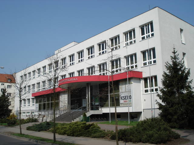 Książnica Kopernikańska (Copernicus Library) in Toruń